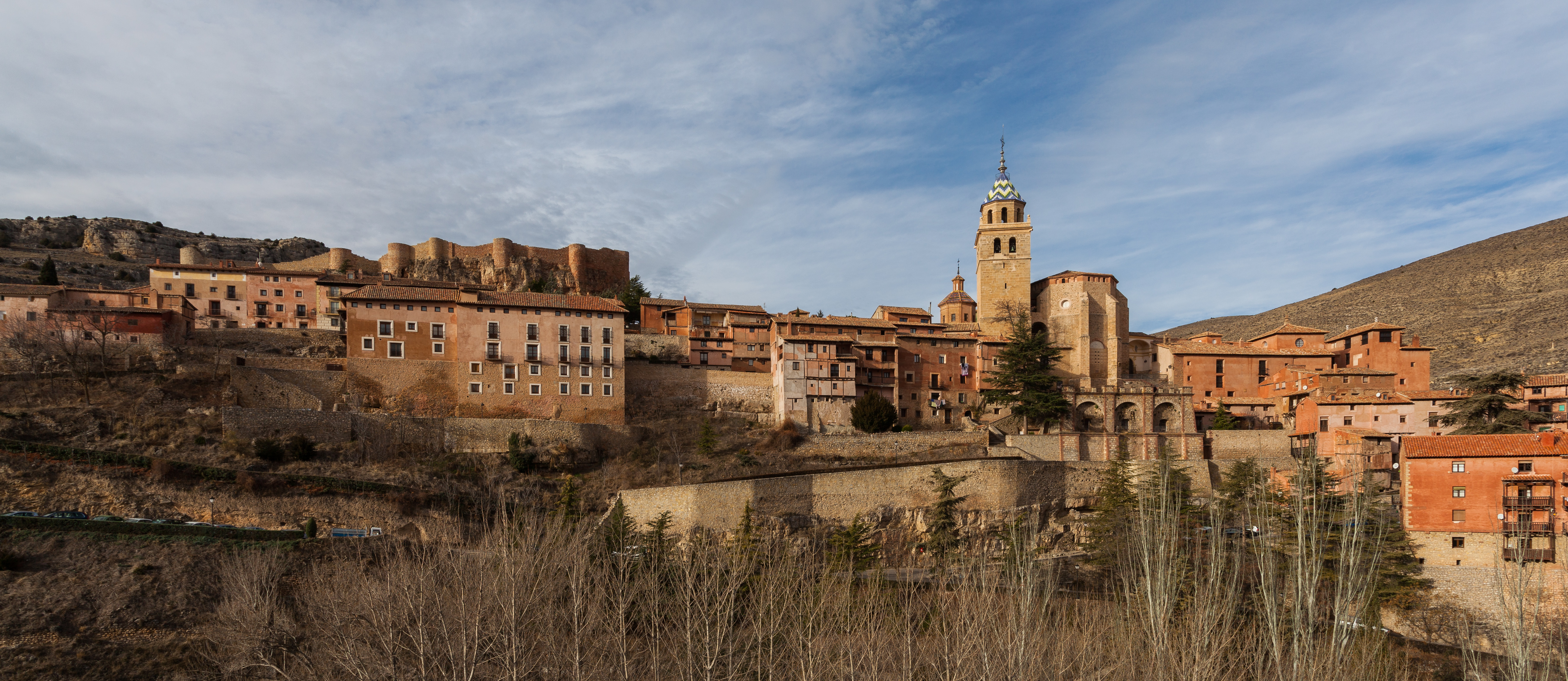 Albarracín, Teruel, Spain